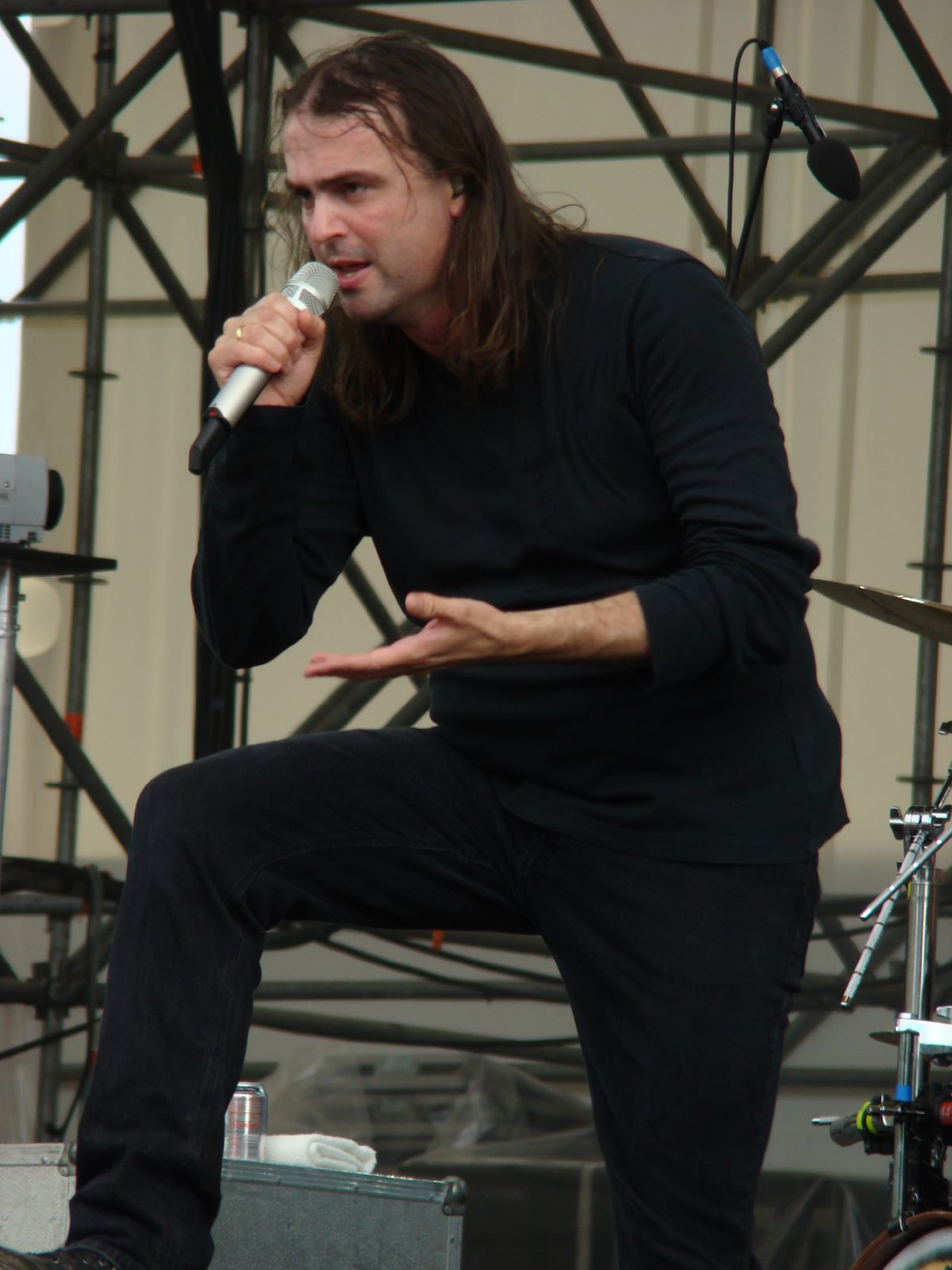 Hansi Kursch, the vocalist of German Heavy metal band Blind Guardian